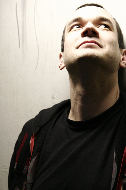 Portrait of Peer Baierlein